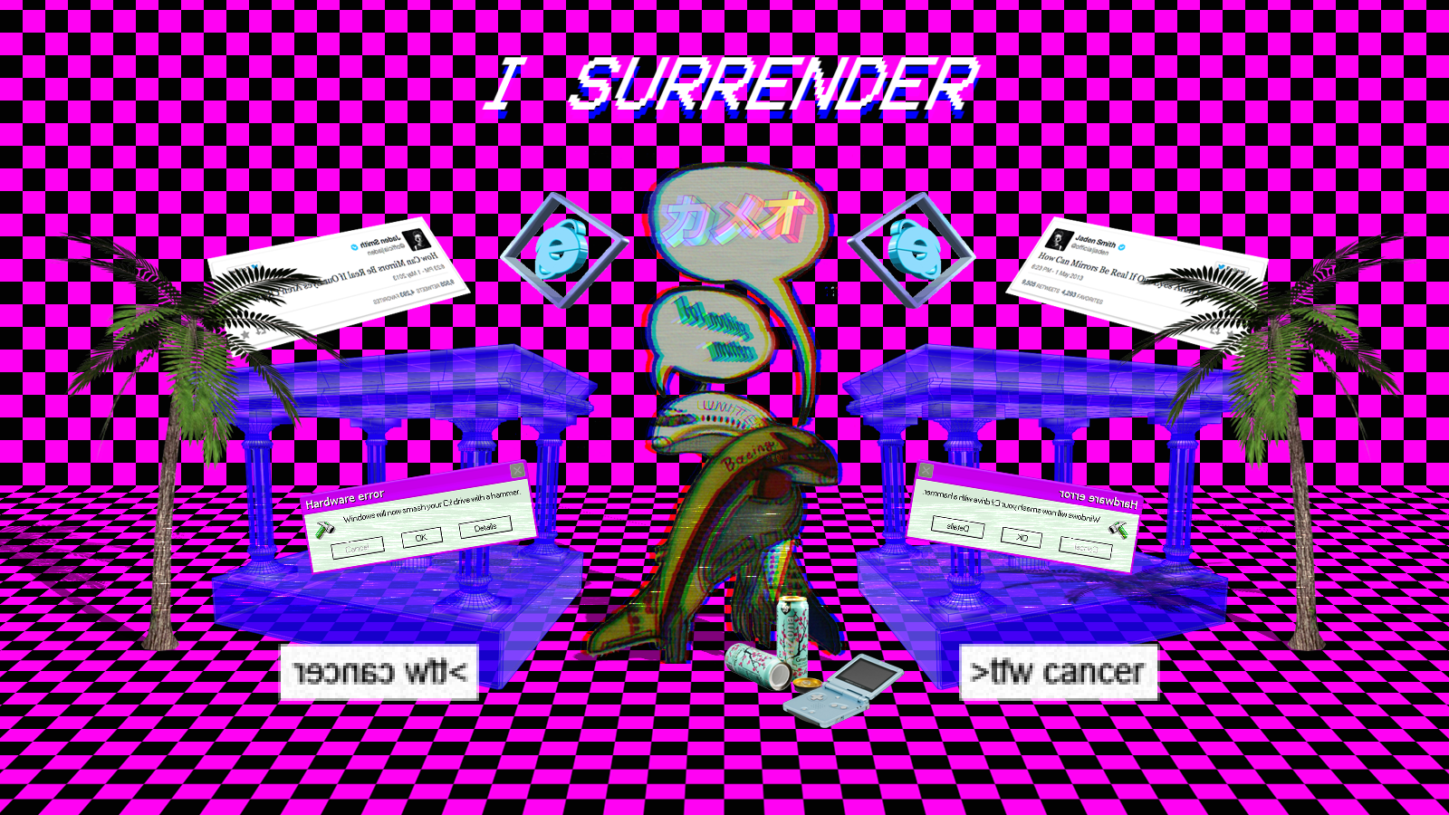 Vaporwave art example created by me.